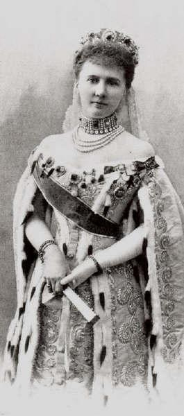 Portrait of Elisabeth of Saxe-Altenburg (1865-1927)